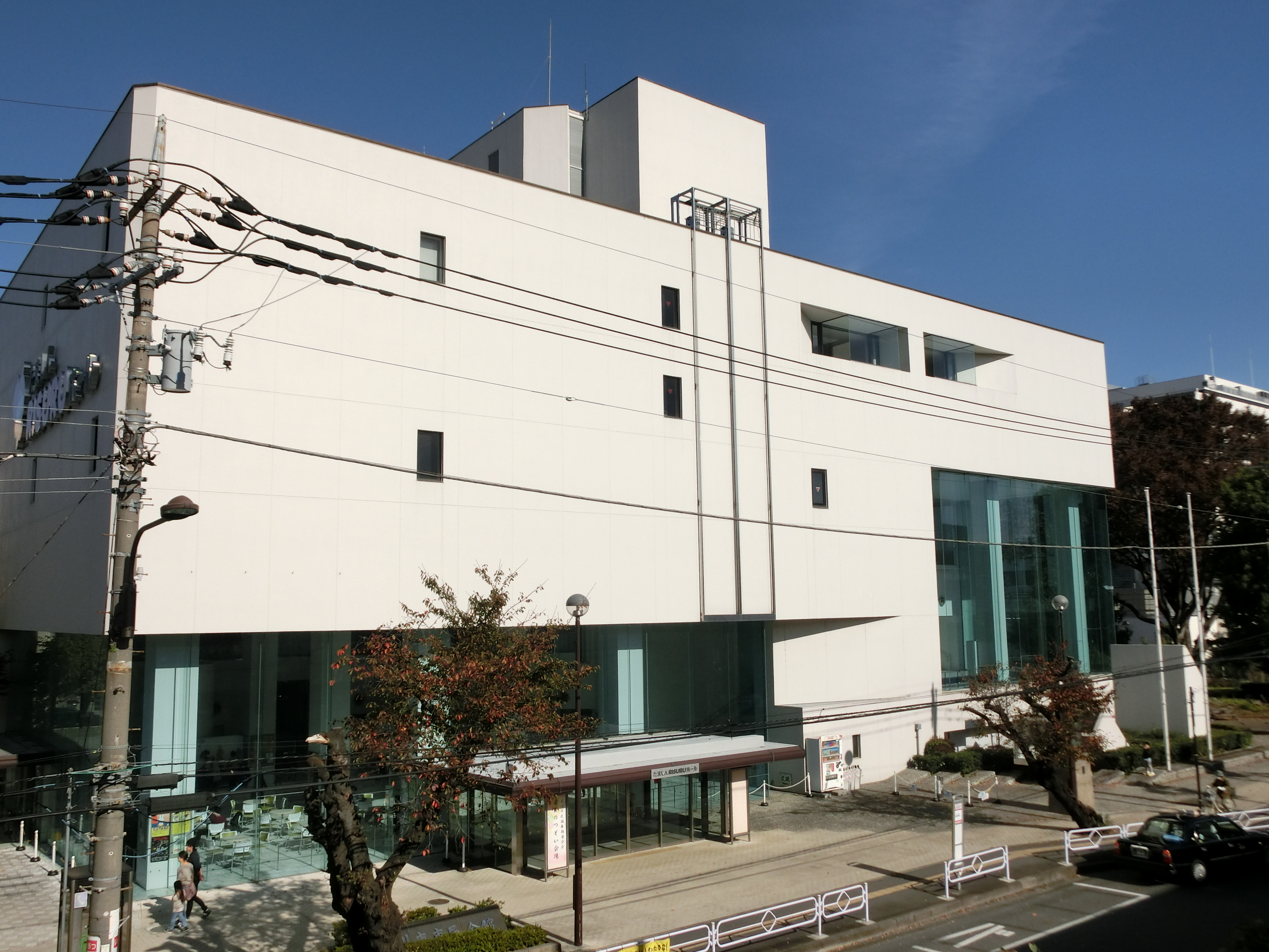 Tachikawa Civil Hall